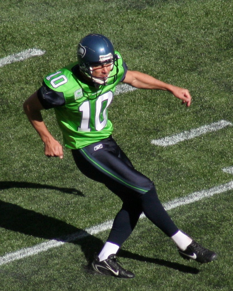 Olindo Mare attempting a field goal